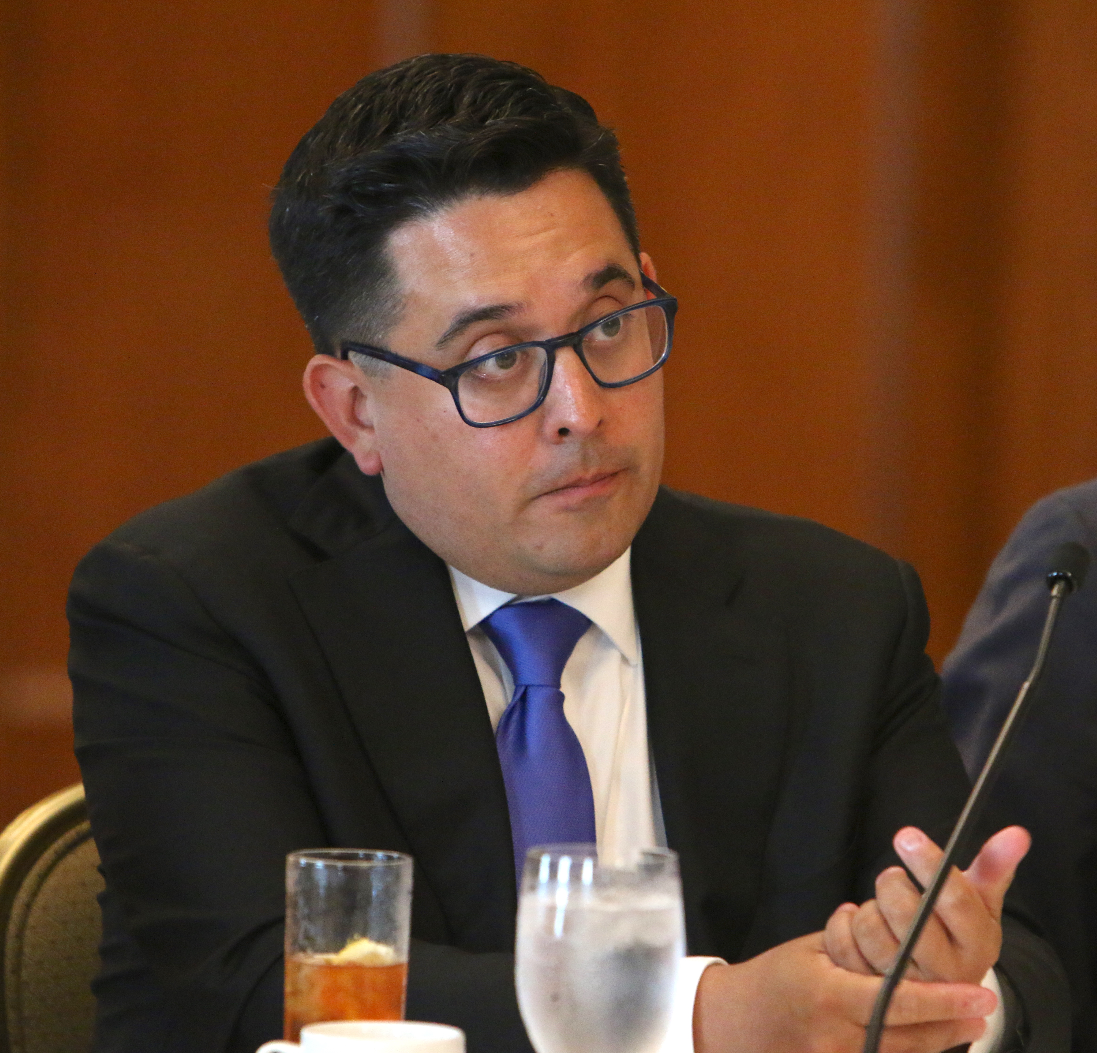 Ed O'Keefe, political correspondent for CBS News, at the 23rd Annual CAF (Development Bank of Latin America) Conference, in 2019